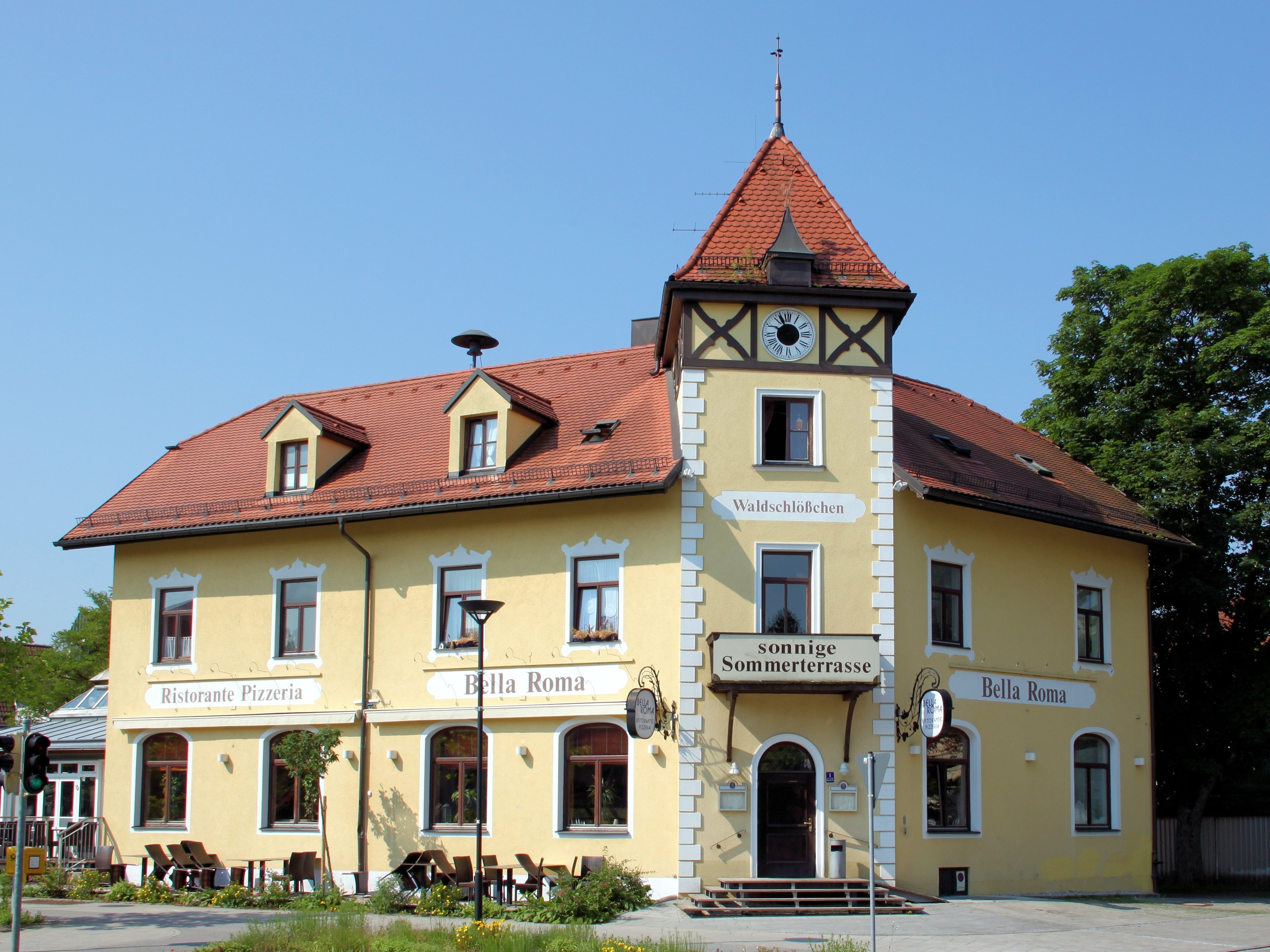 "Waldschloesschen" (oldest building existing at Ottobrunn; today inhabiting a restaurant)